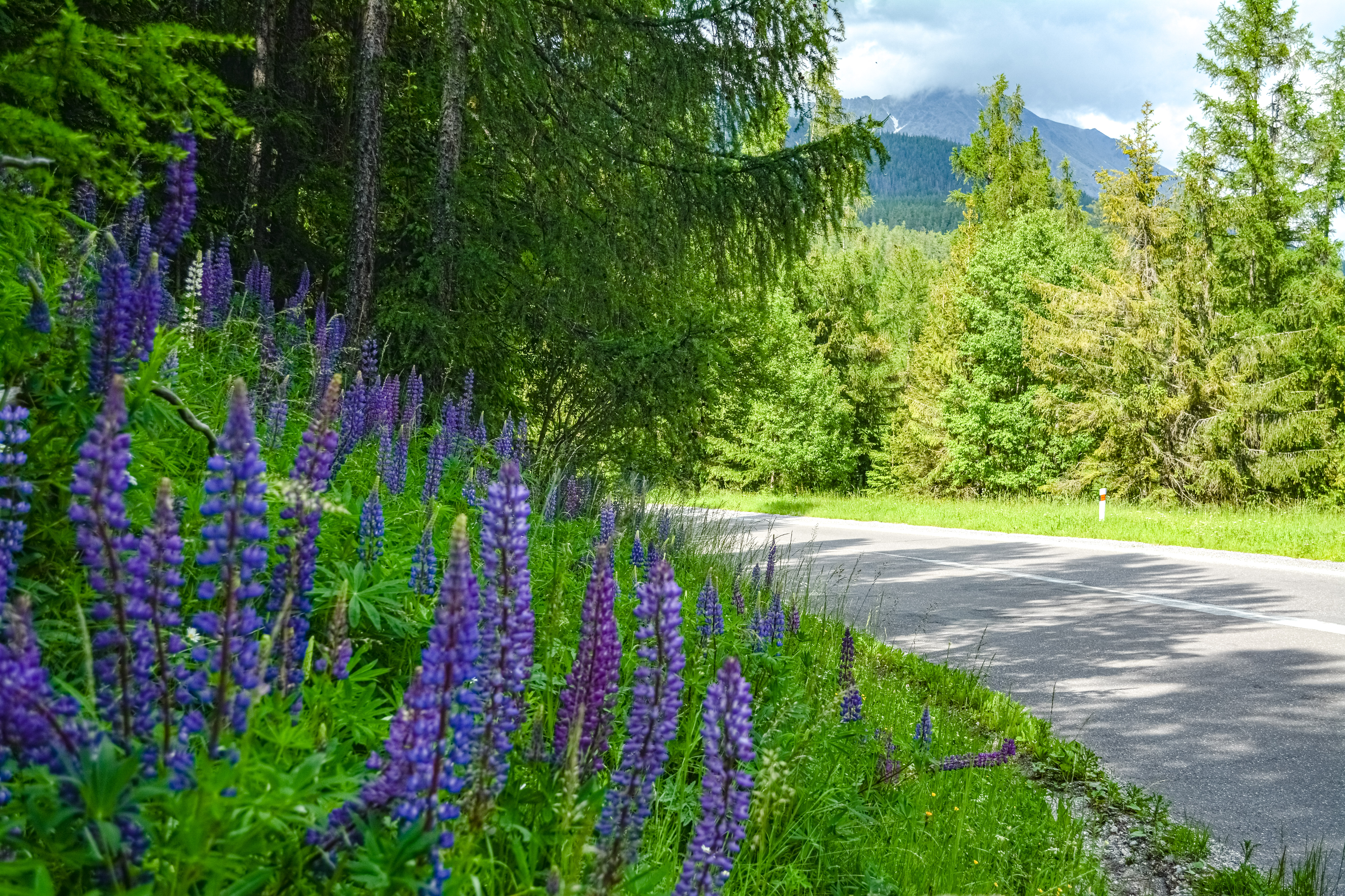 Large-leaved lupine growing at roadside of Cesta slobody in High Tatras near Vyšné Hágy